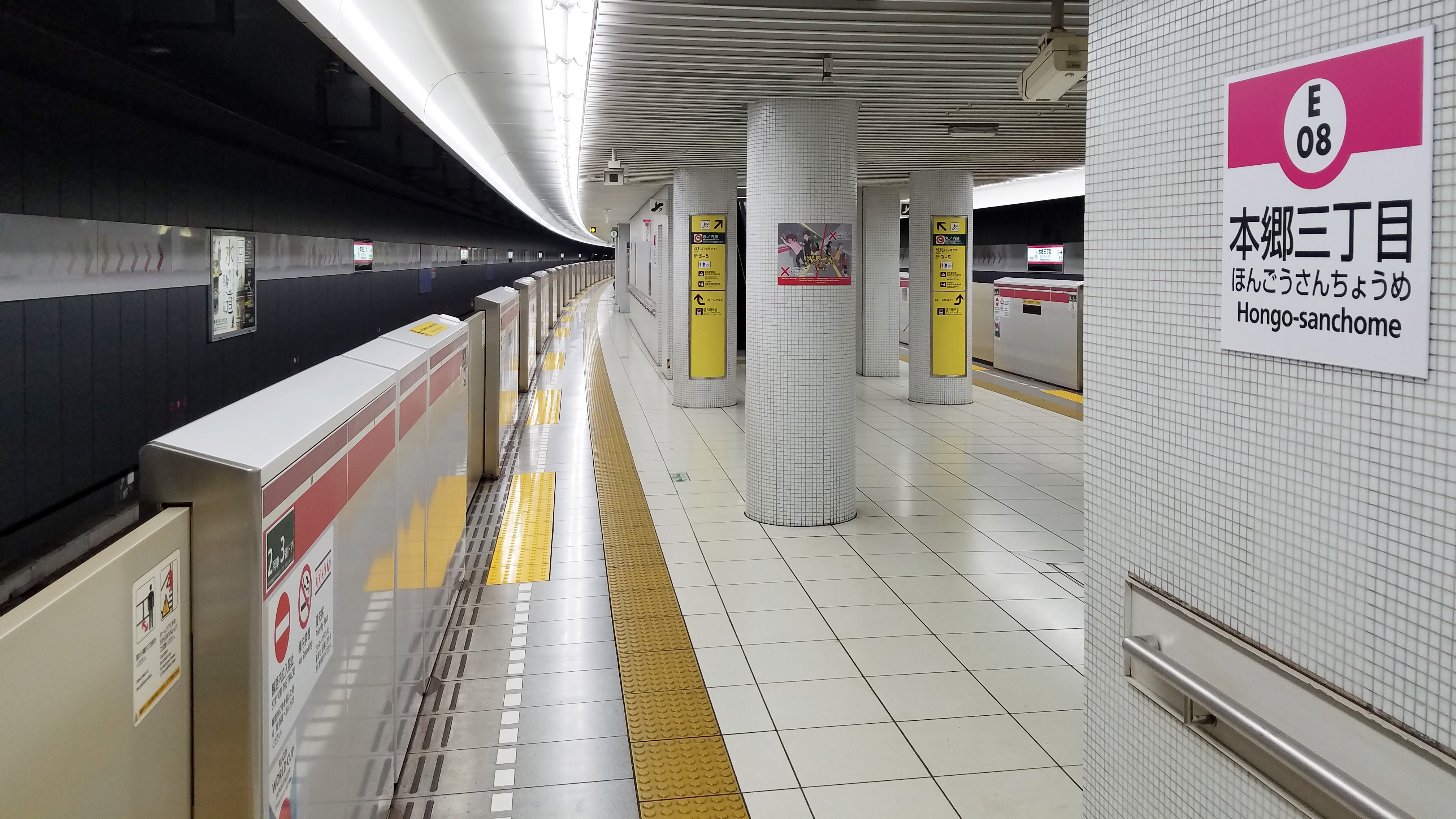 The platform at Hongō-sanchōme Station on the Toei Ōedo Line in Bunkyō city, Tokyo, Japan